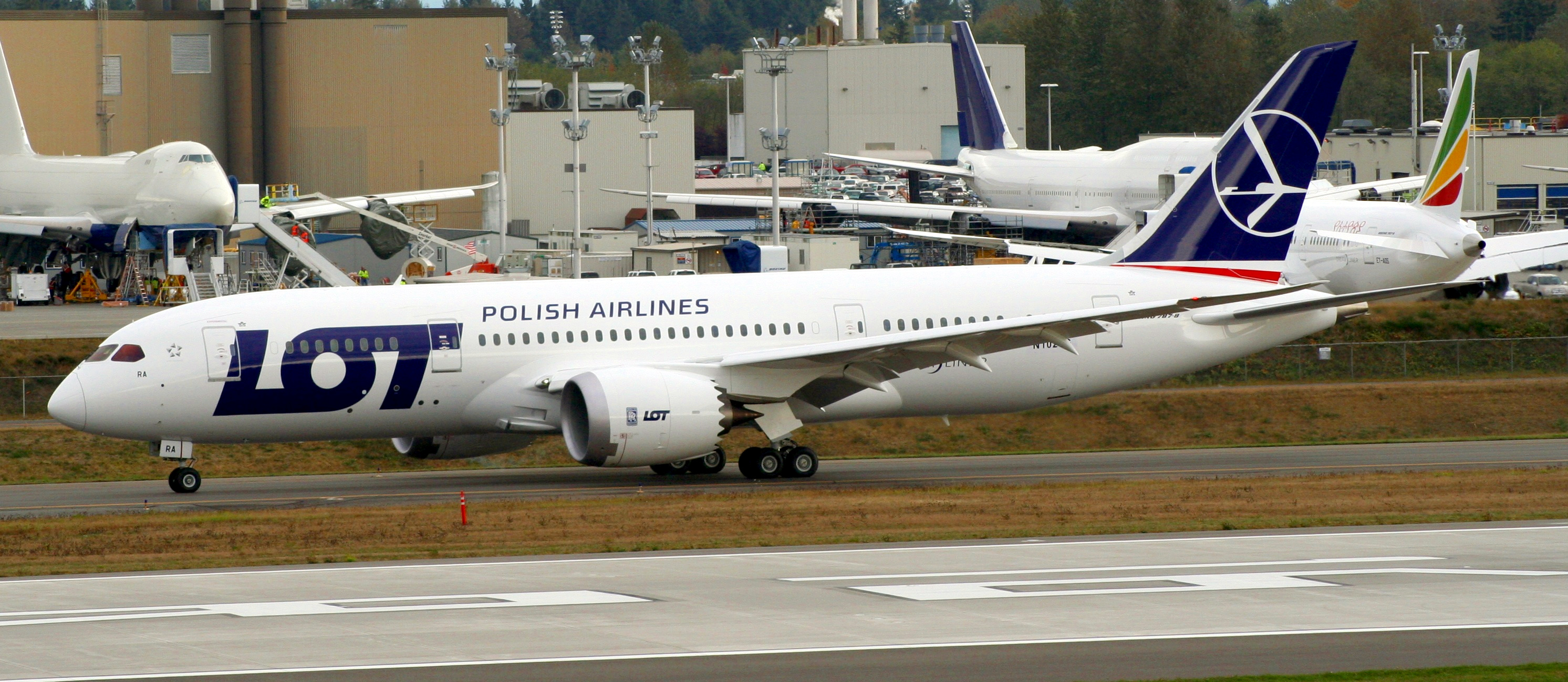 First Boeing 787-85D Dreamliner of LOT Polish Airlines at Paine Field airport in Snohomish County, Washington.